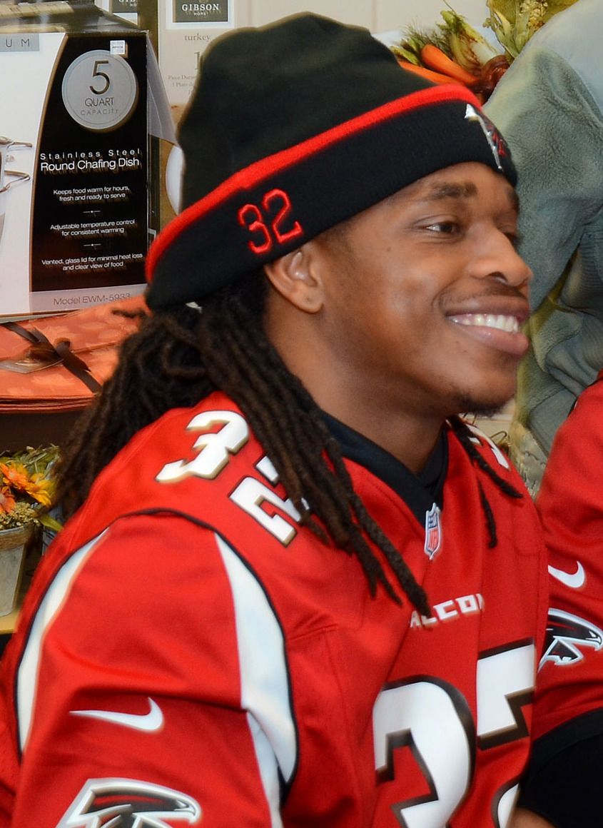 Atlanta Falcons players, Jacquizz Rodgers, Cliff Matthews, and Bear Pascoe pose for a picture at the Dobbins ARB Base Exchange in Marietta, Georgia, Nov. 18, 2014. The Falcons players spent a couple hours on the base to thank the various military service members for what they do every day for our country. (U.S. Air Force photo/ Brad Fallin /Released)